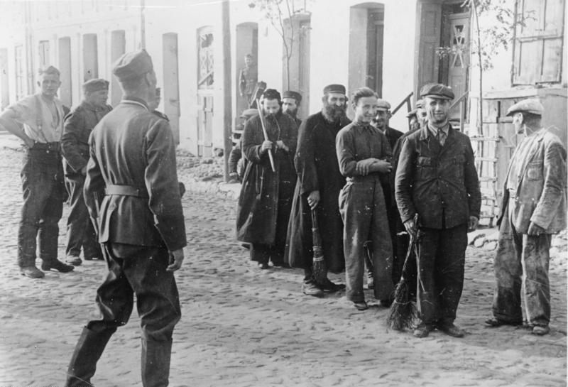 Polish jews have to line up to do forced labour.